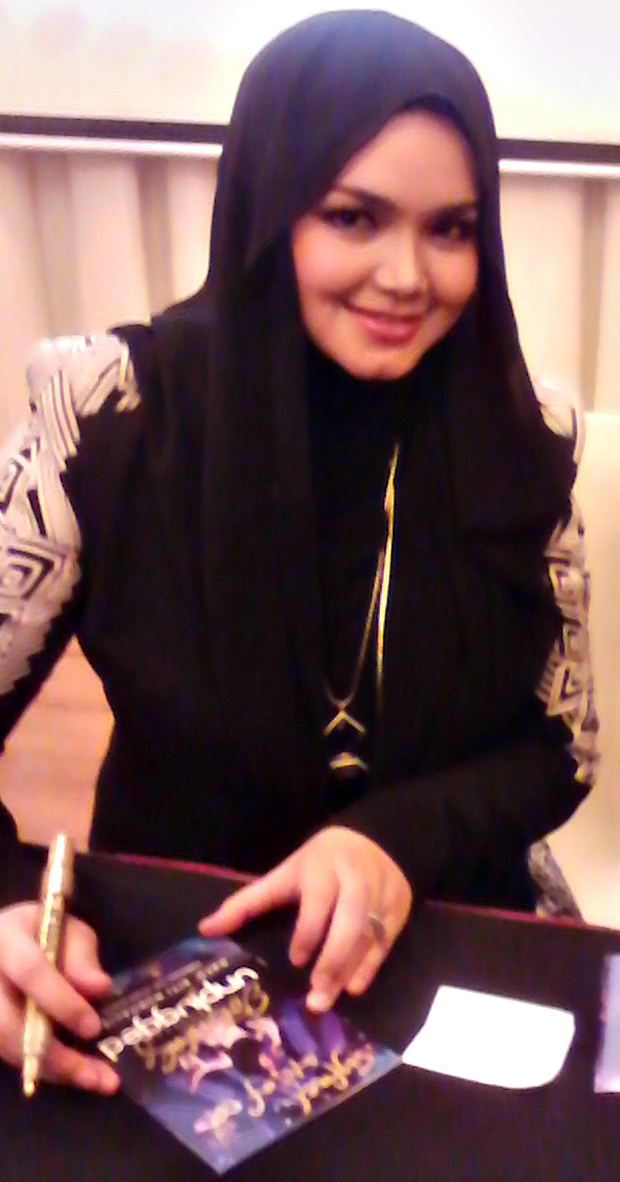 Taken with my personal mobile phone, cropped to give more focus on her. Slightly edited to improve the image quality on Photoscape. Taken on September 13, 2015 at her Meet and Greet session for her Unplugged album at Red Box, Pavilion, Kuala Lumpur.